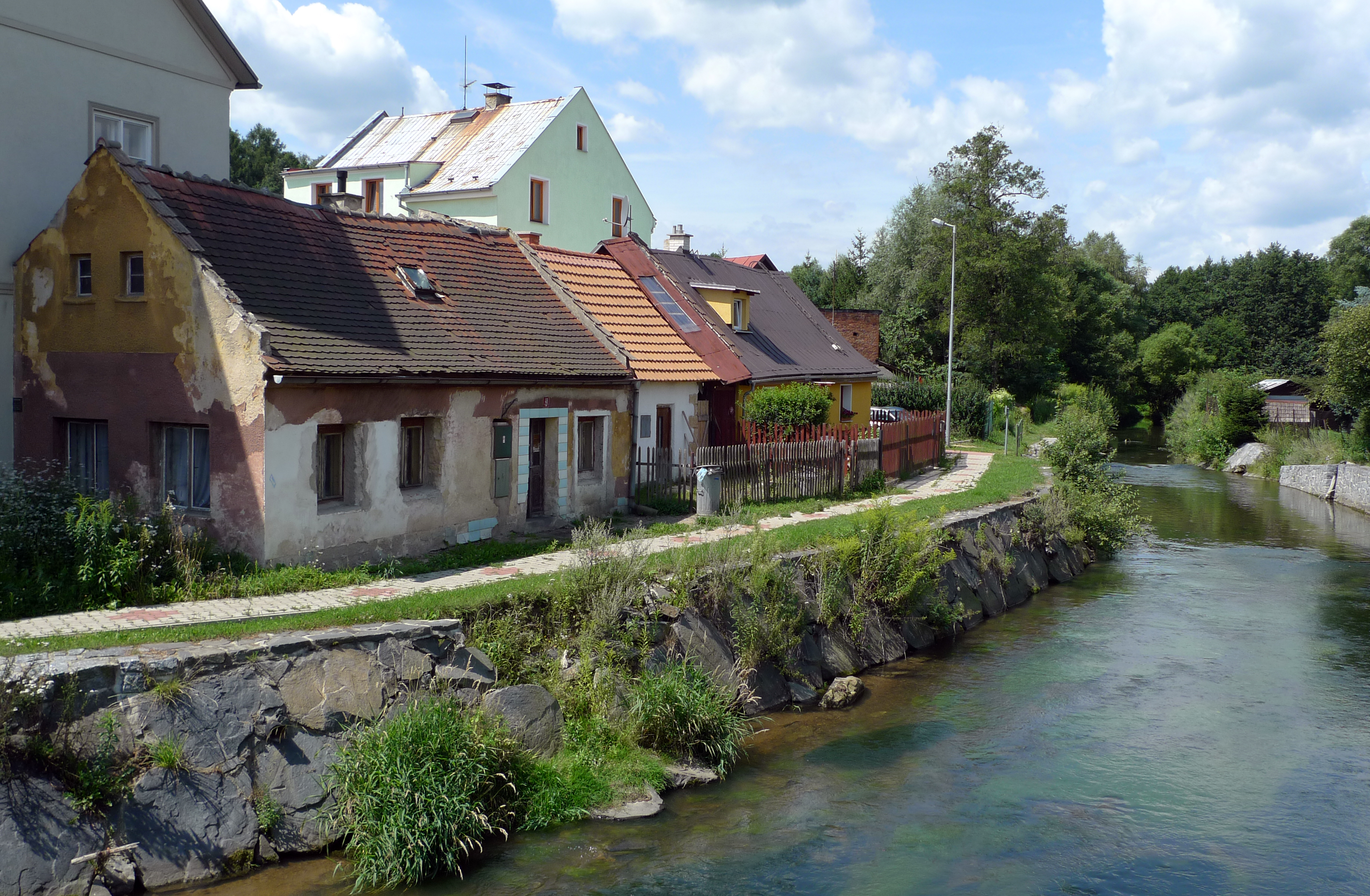 Mimoň in the Czech Republic - Panenský potok